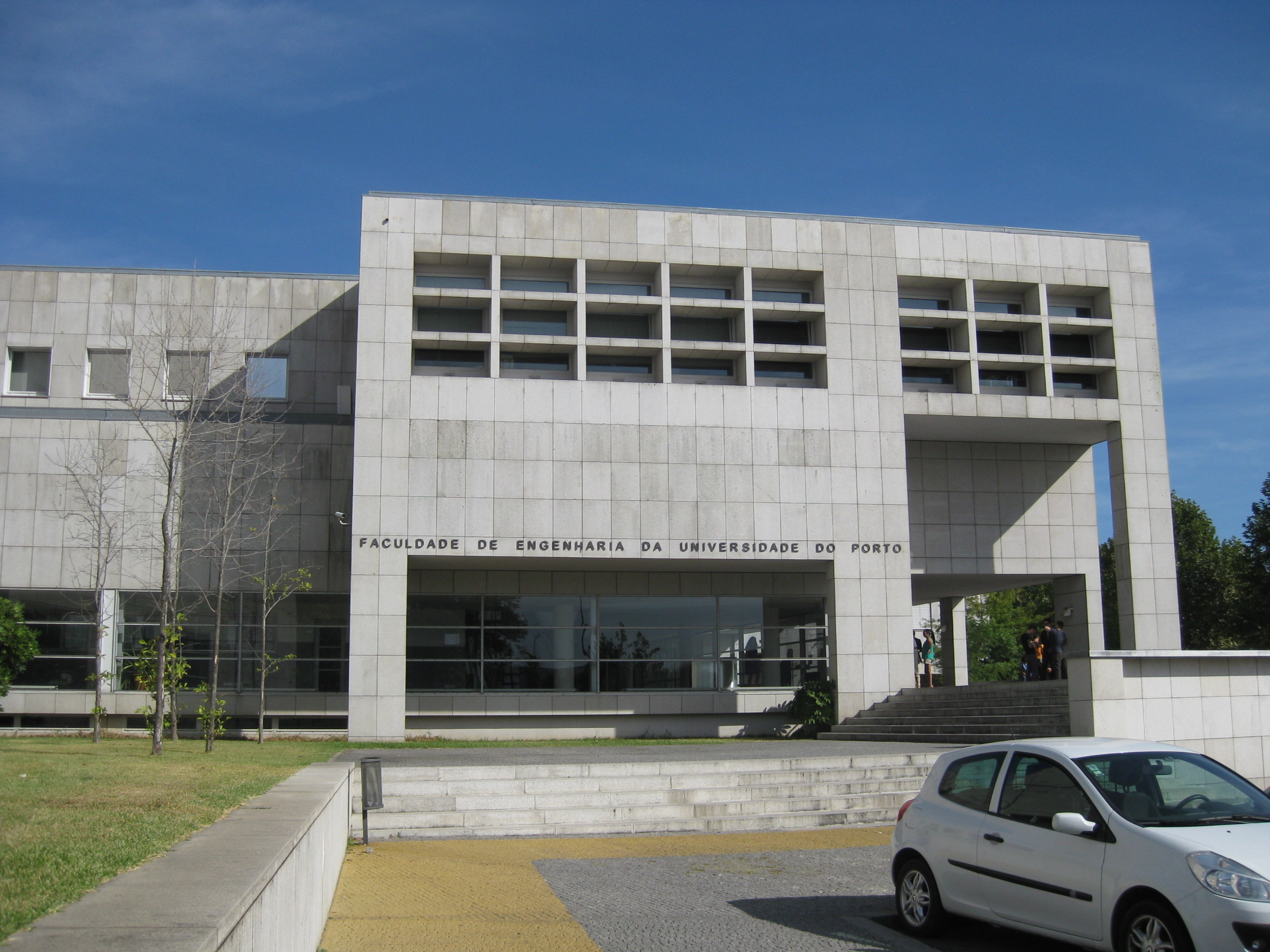 Main entrance of the Faculty of Engineering, University of Porto